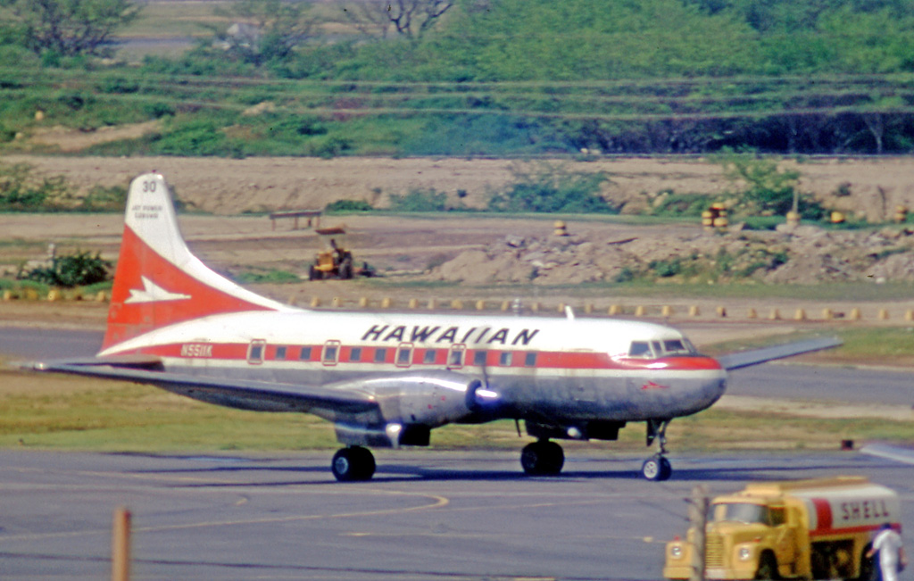 Convair 640 N5511K of Hawaiian Airlines at Honolulu Airport in 1971